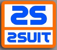 2suit logo; garment logo emblem patch designating functionality of garment as a 2suit. The 2suit flight garment can attach to another 2suit; designed to facilitate human intimacy and stability in microgravity environments of outer-space. The logo is a symbol for humanity's long-term survival as a species on Earth and beyond.